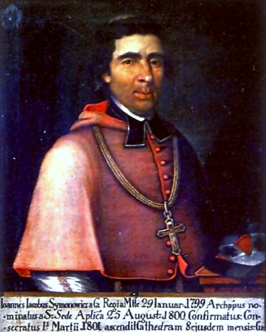 Jan Jakub Symonowicz